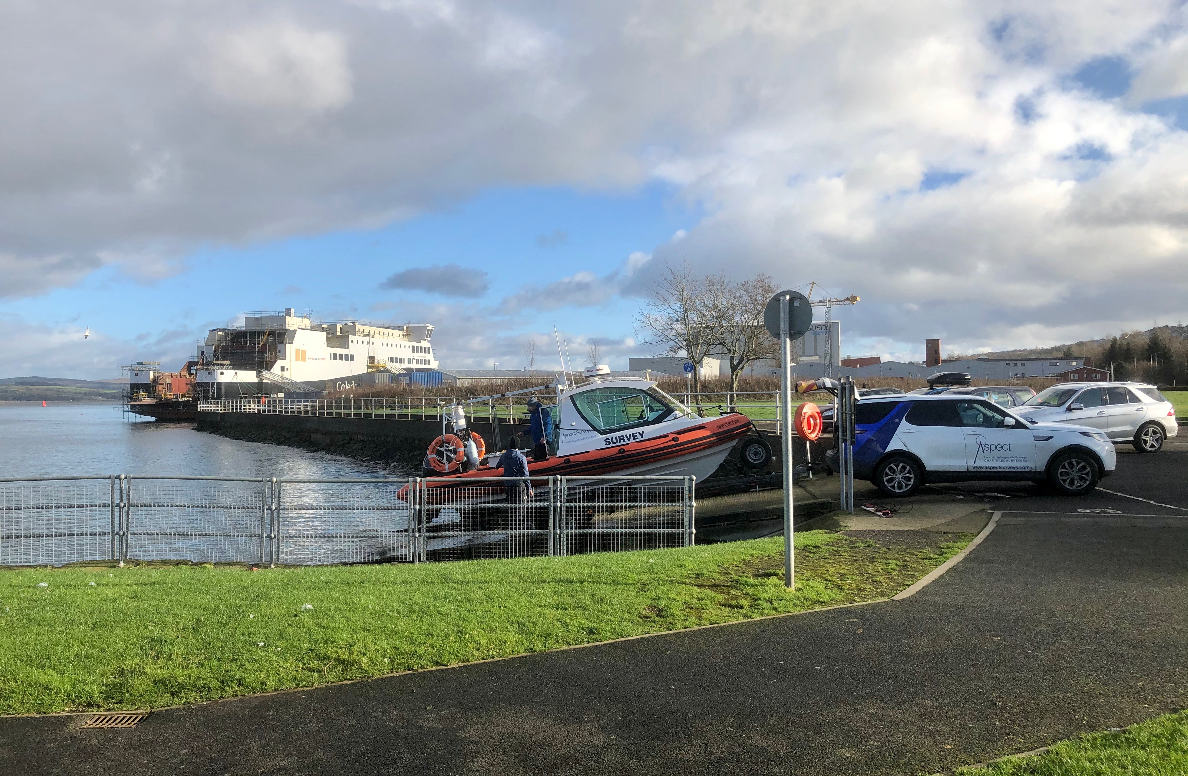 Slipway in use at Coronation Park, Port Glasgow, with MV Glen Sannox under construction at Newark Quay of Ferguson Marine Engineering.